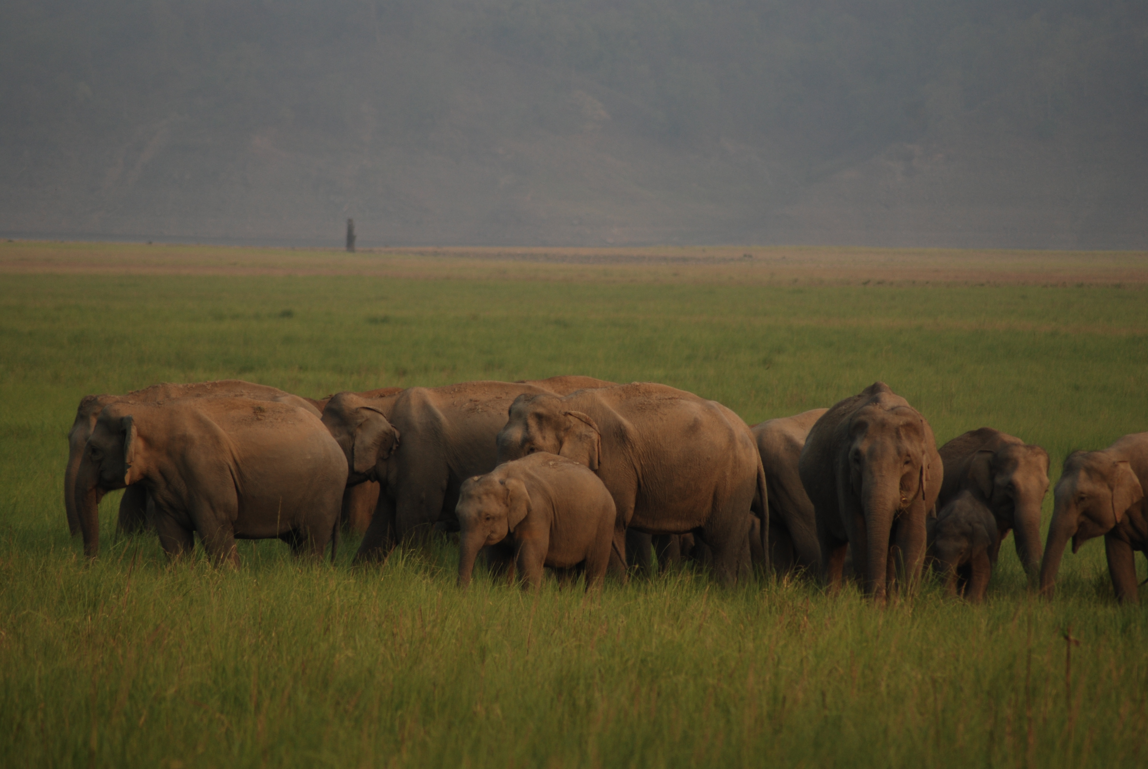 An Asian Elephant herd at Jim Corbett National Park. Uttarakhand, India.